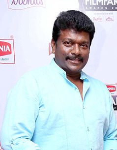 Actor R. Parthiepan at the 62nd Filmfare Awards South